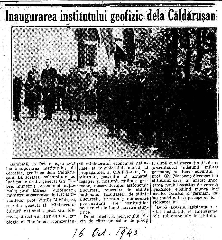 Inauguration of Surlari Geomagnetic Observatory, 16 October 1943